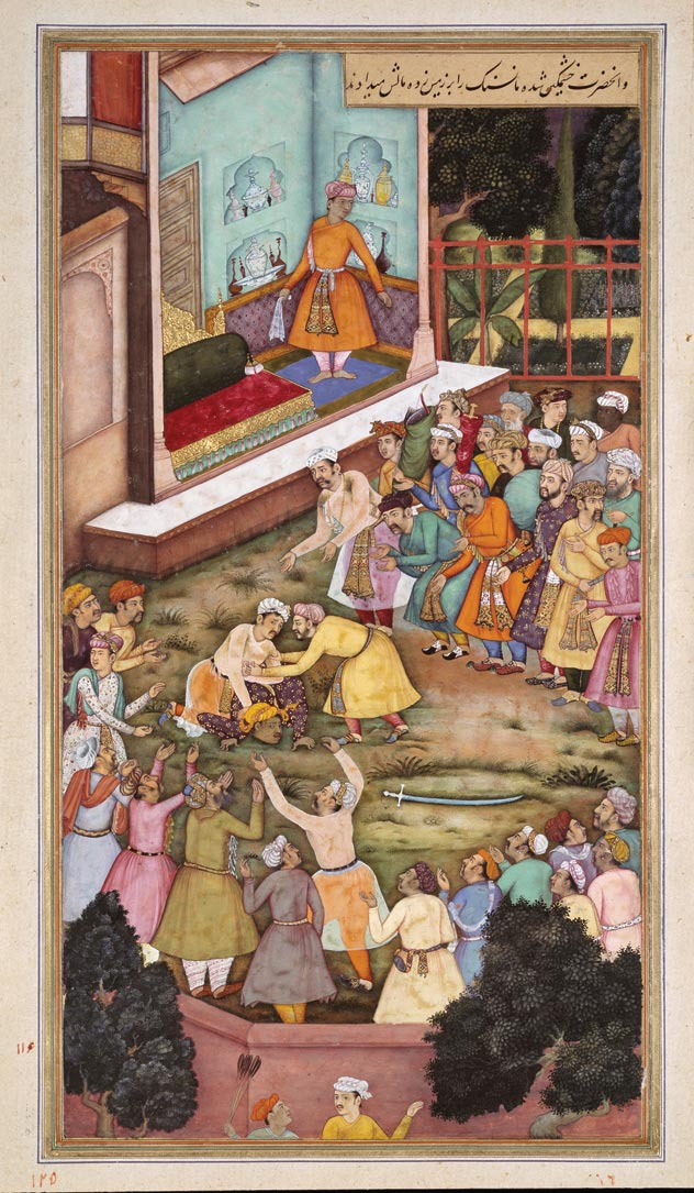 Akbar Fights with Raja Man Singh from a copy of the Akbarnama. (circa 1600-03) Chester Beatty Library, Dublin